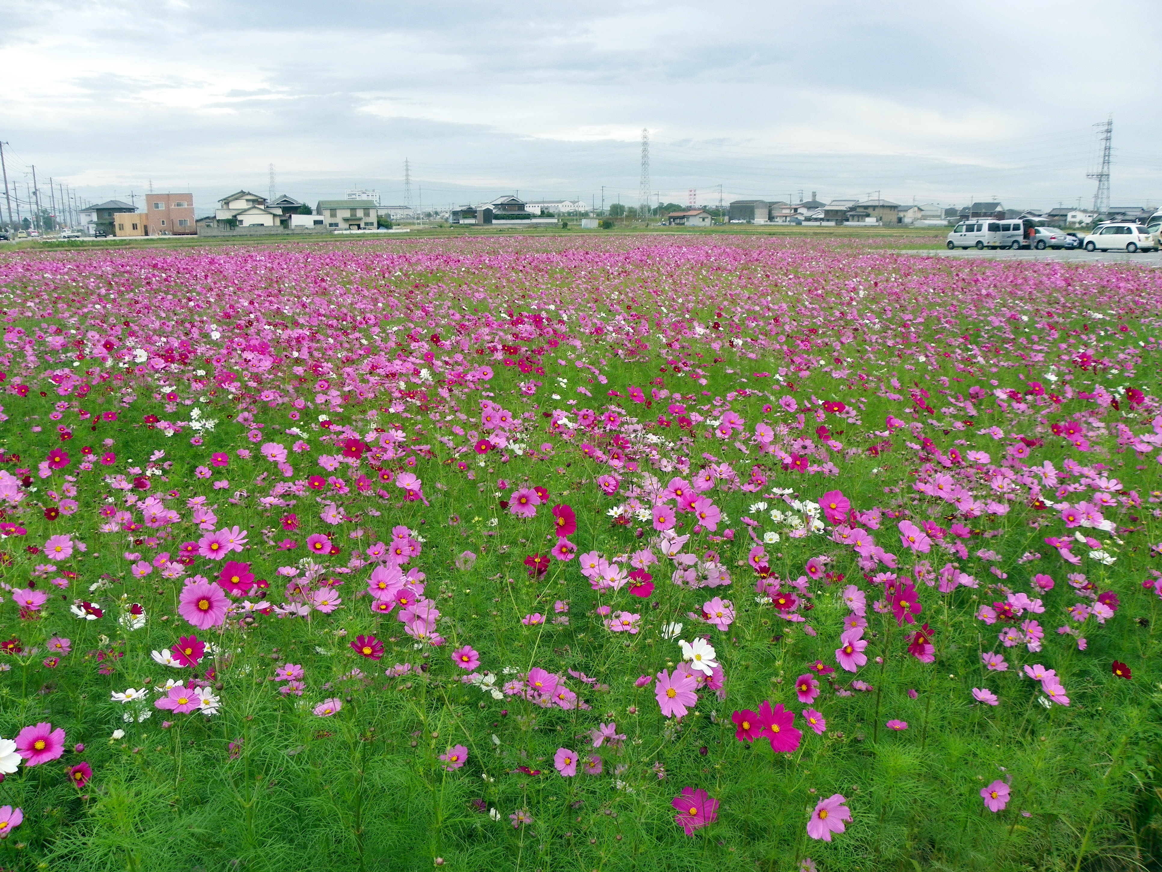 Cosmos near Tenman-Ōike, in Inami, Hyōgo, JP.